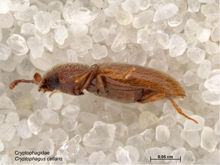 Cryptophagus cellaris.